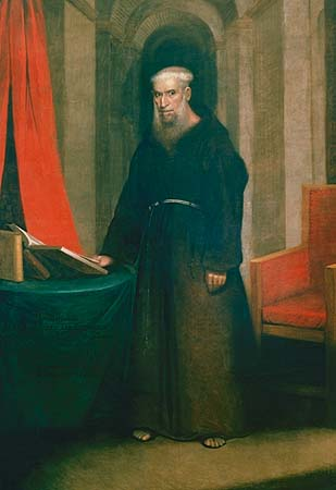 Portrait of Père Antoine (Padre Antonio de Sedella) [Father Antonio de Sedella 1748-1829] at Age Seventy-Four, by Edmund Brewster, New Orleans, 1822.